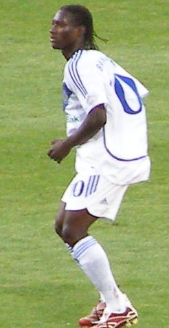 Ismaël Bangoura, Guinean footballer